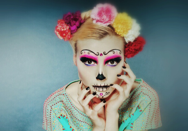 If you are interested in trying out a minimalist skull, Andre Pienaar C5 recommends you try contouring with black and dark brown face paint and sprucing everything up with rhinestones. It’s not as labour intensive as doing a full face skull but it involves a precise hand and a lot of blending expertise.